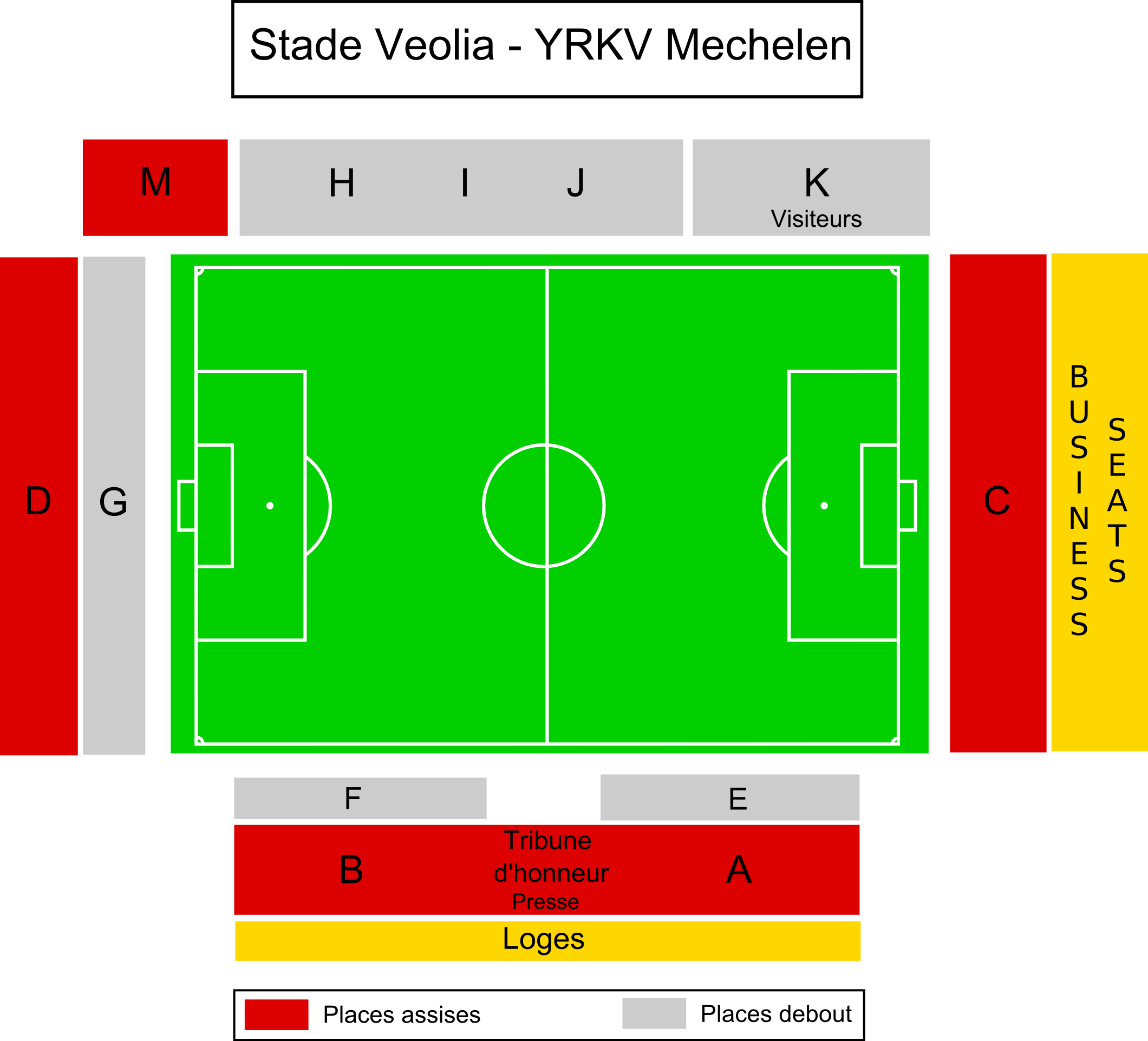 Plan of the Veolia Stadium in 2009 (KV Mechelen, Belgium) based on the stadium plan on KV Mechelen's website. Notes in French.